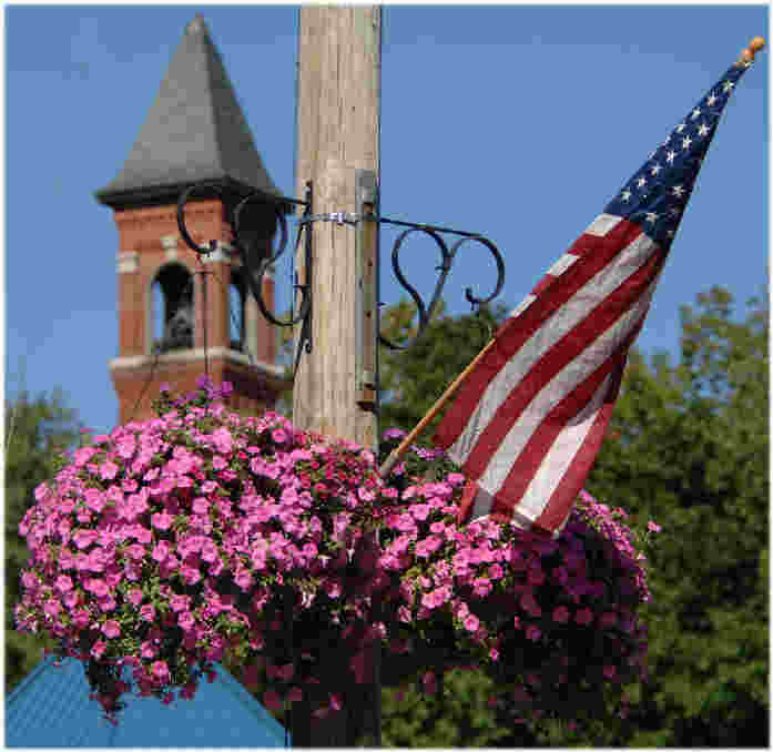 Hanging basket showing flag and Spencer Town Hall tower